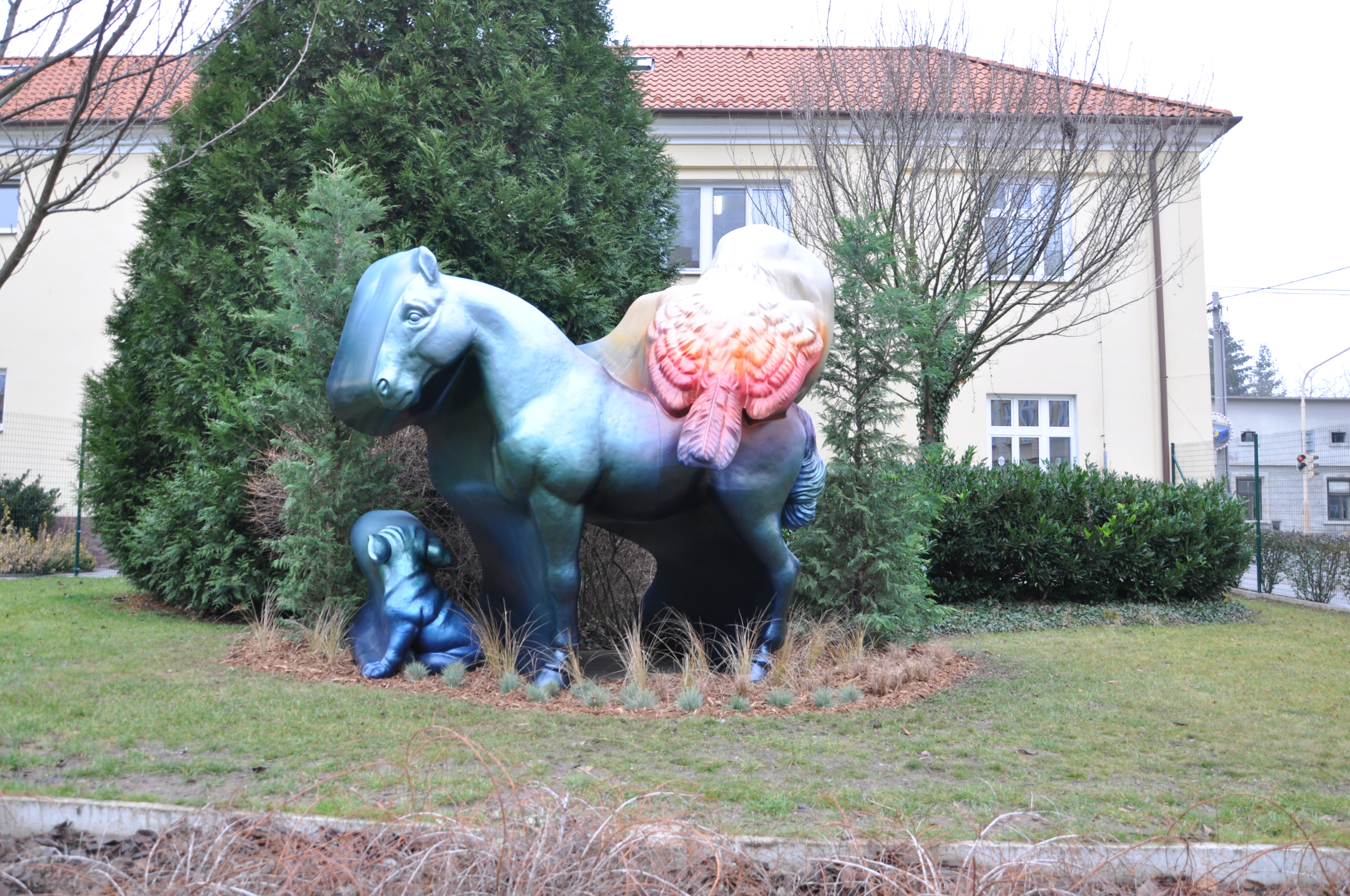 Sculpture by Lukáš Rittstein at the Bioveta Pavilion, Expo 2015, Milan, Italy.